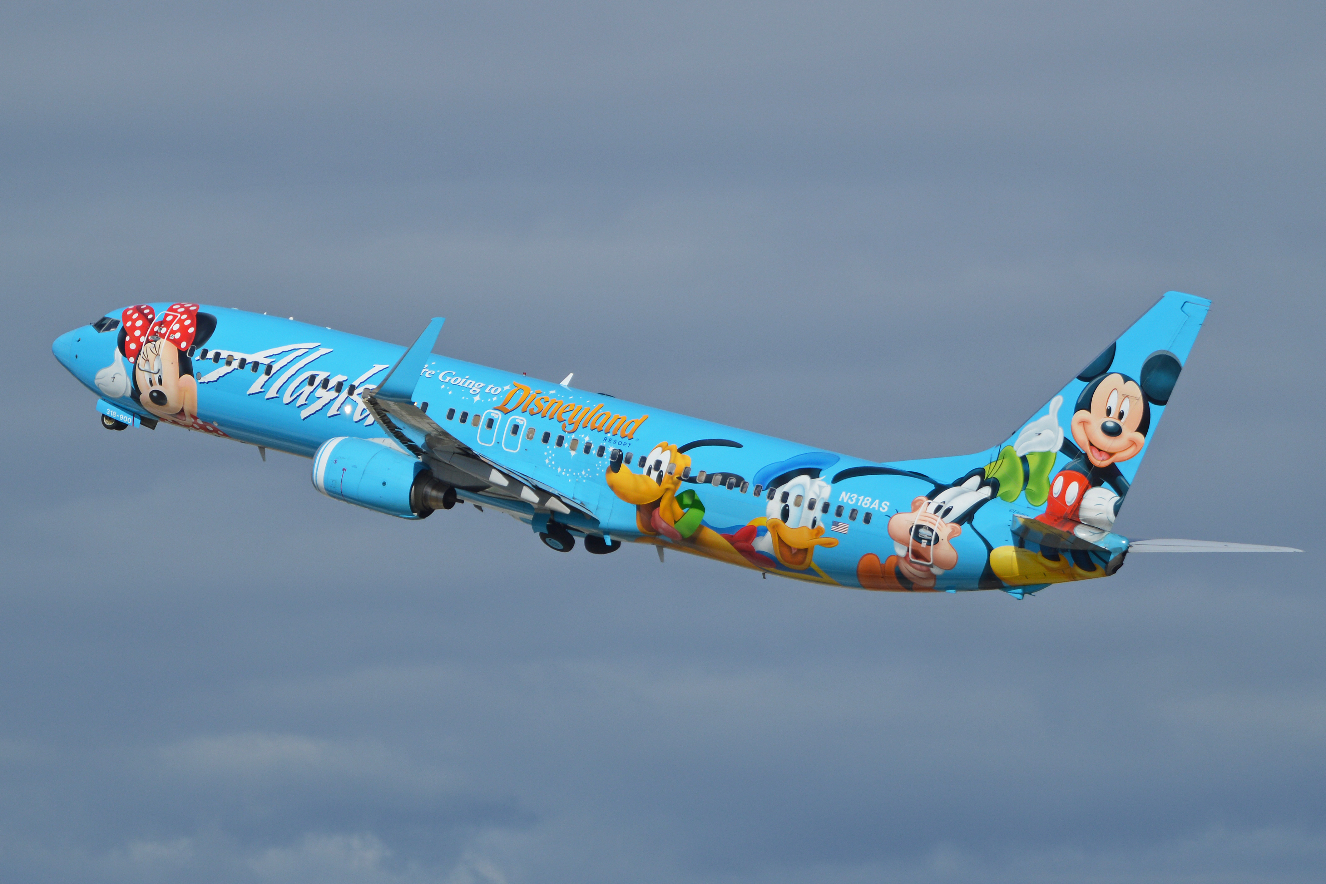 In a fantastic 'Disneyland' special scheme. c/n 30018, l/n 1326. Built 2003. Seen departing LAX and taken from the Imperial Hill spotting location. Los Angeles, California, USA. 08-2-2014